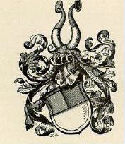 Coat of arms of the Barons of Roggenbach.